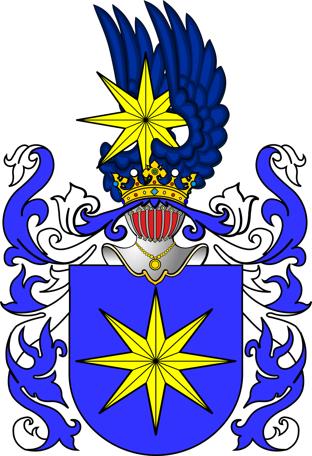 Coat of Arms of the old Bohemian noble family " ze Šternberka ", counts of Sternberg. Right arms, with right crest